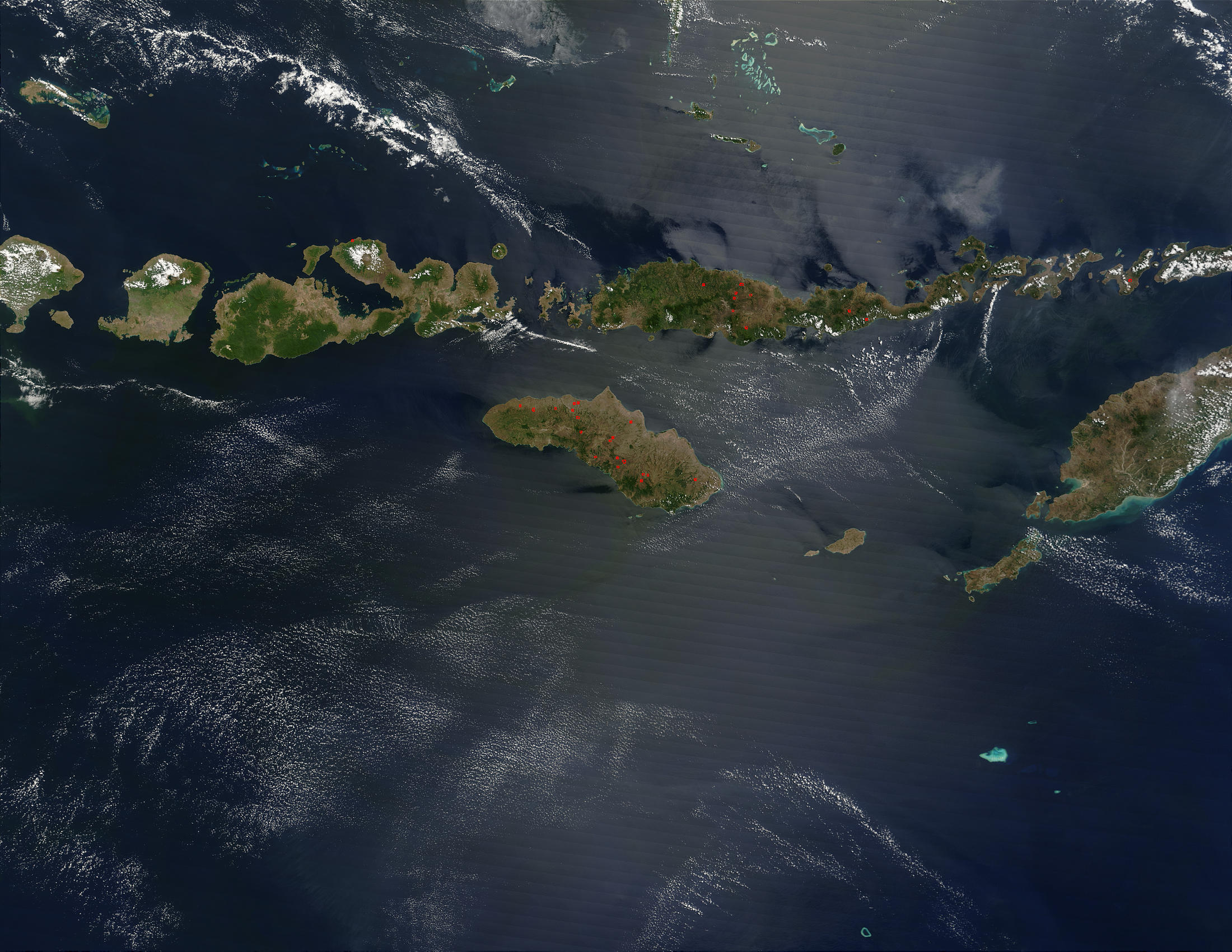 The Lesser Sunda Islands, Indonesia Forming the southern arc of central Indonesia, the Lesser Sunda Islands link the island of Java (west) to the island of Timor (east). The islands stretch 1,200 kilometers west to east, and traverse the waters of the Timor, Sawu, Banda, and Flores Seas, as well as the Indian Ocean. Dotted across the islands are a number of fires, which are marked in bright red. Two tiny islands in this chain, Komodo and Rinca, are famous for being the home of dragons —of the non-mythical variety. Komodo Dragons are four-legged monitor lizards that are extremely fierce. They can weigh up to 130 kg (287 lbs) and grow to be over 3 meters (about 10 feet) in length. Komodo Dragons are a protected species, with only about 5700 of them living on these two and other smaller local islands. Komodo, Rinca, and Padar Islands (as well as numerous smaller islands) are part of Komodo National Park, which was established in 1980, and which was declared a World Heritage Site in 1991. Komodo Island is located just to the west of Flores Island, which is the long thin island dotted with numerous fires in the upper center of the image. This true-color Terra MODIS image was acquired on August 30, 2003.